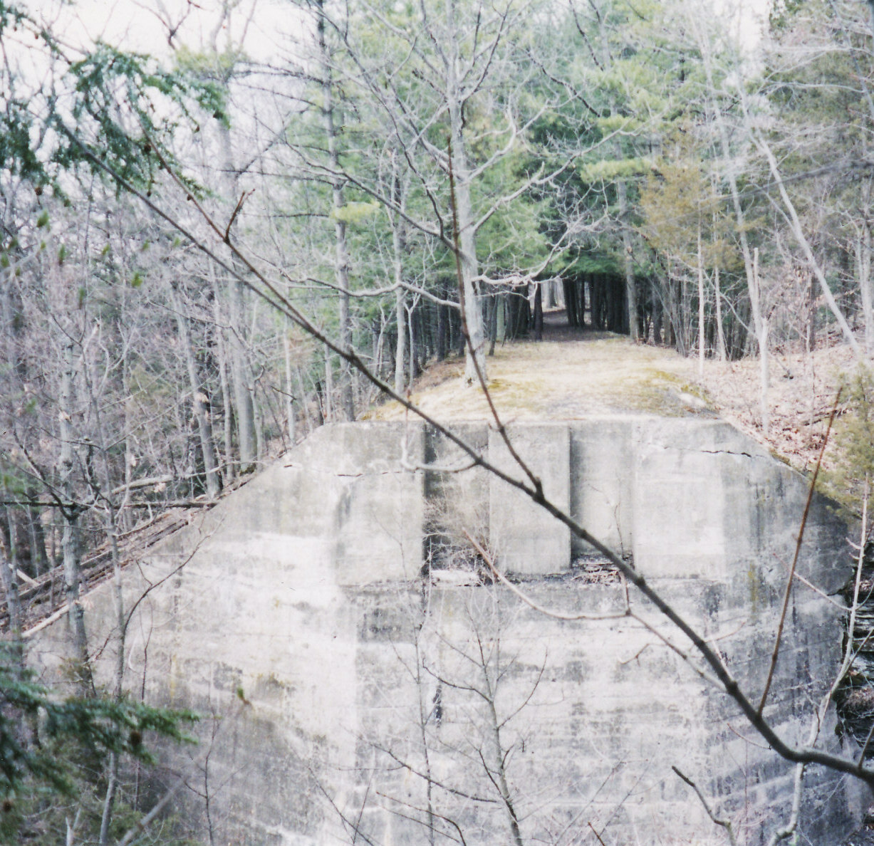 Abutment of the Ithaca-Auburn Short Line bridge at Twin Glens, viewed from the south side.